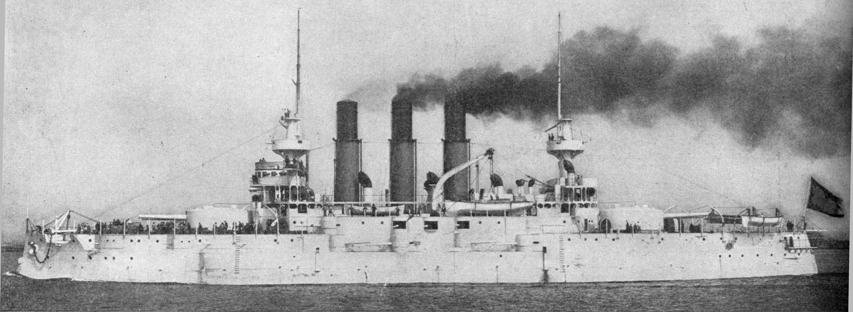 Battleship Retvizan.